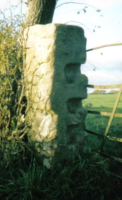 A limestone stile at Wester Kittochside Farm, near Carmunnock in Glasgow